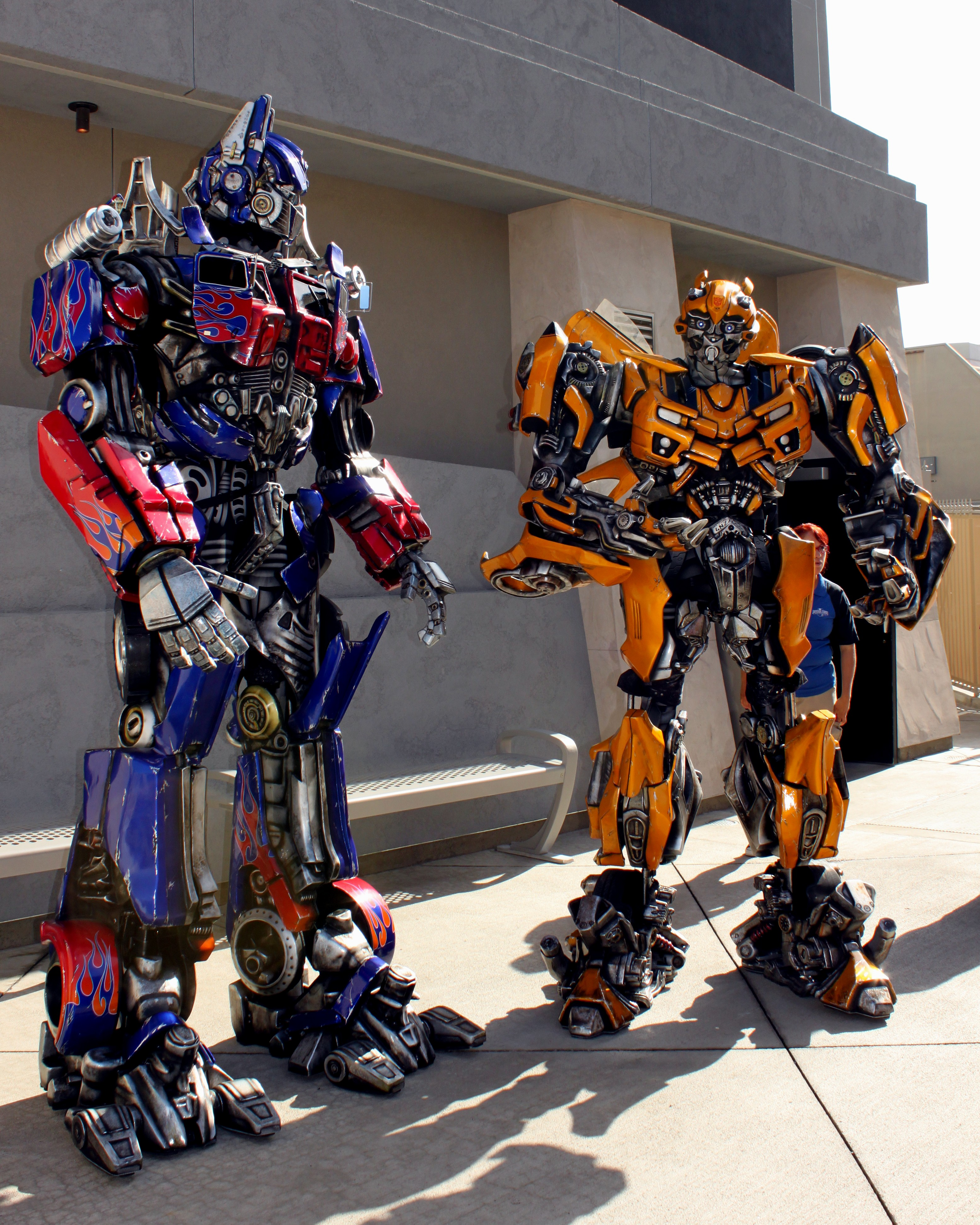 Optimus Prime & Bumble Bee TRANSFORMERS THE RIDE-3D Universal Studios ~ Hollywood, California